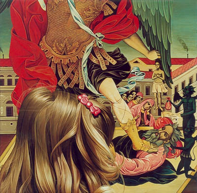 Archange Michel and Sylvie by Andrey Lekarski acrylic and oil on canvas 150 x 150 cm / 60 x 60 in